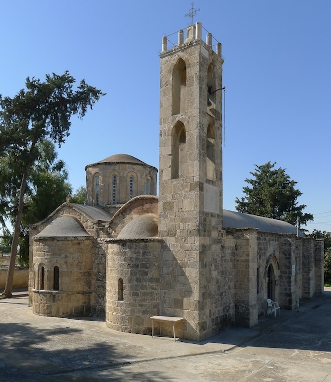 Panagia Theotokus, Iskele (Trikomo), Cyprus.